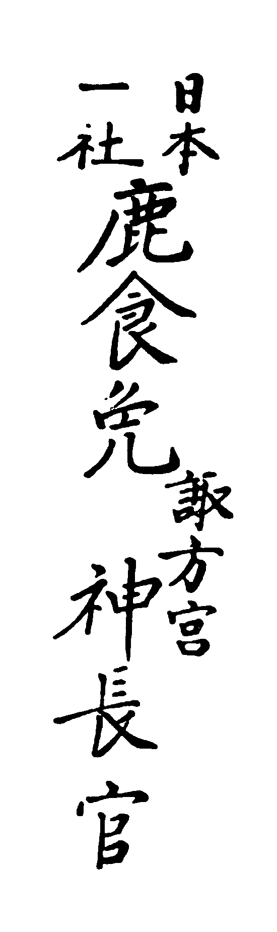 A kajikimen (鹿食免 'permit to eat deer') issued by Suwa Shrine, held to allow the bearer to eat venison and other meat at a time when meat eating was mostly frowned upon in Japan due to Buddhist influence.